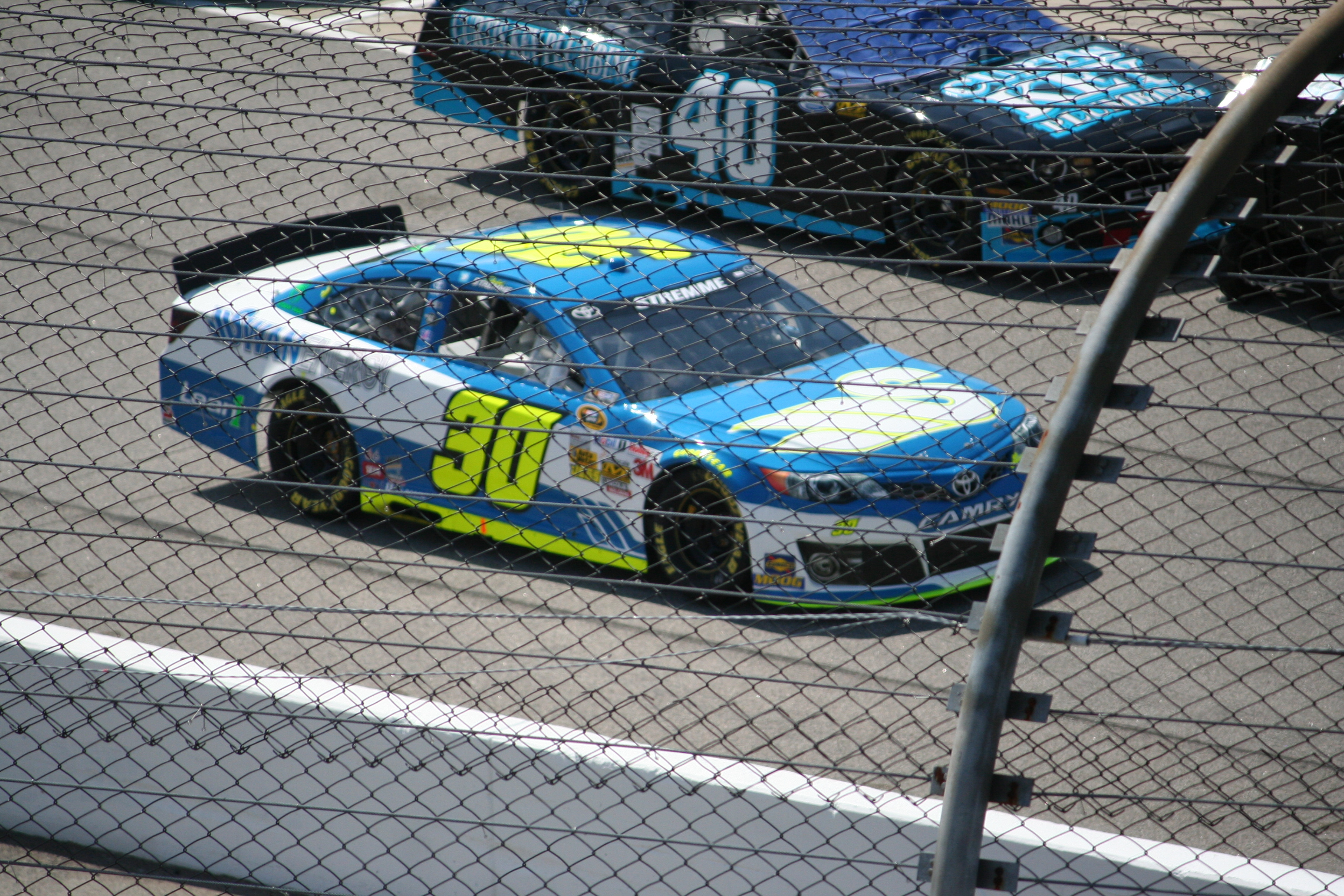 NASCAR Sprint Cup Series driver David Stremme pulls his No. 30 Swan Energy Toyota onto pit road during practice for the 2013 Toyota Owners 400 at Richmond International Raceway, April 26, 2013. Note Nationwide Series No. 40 The Motorsports Group Chevrolet of Josh Wise in background.